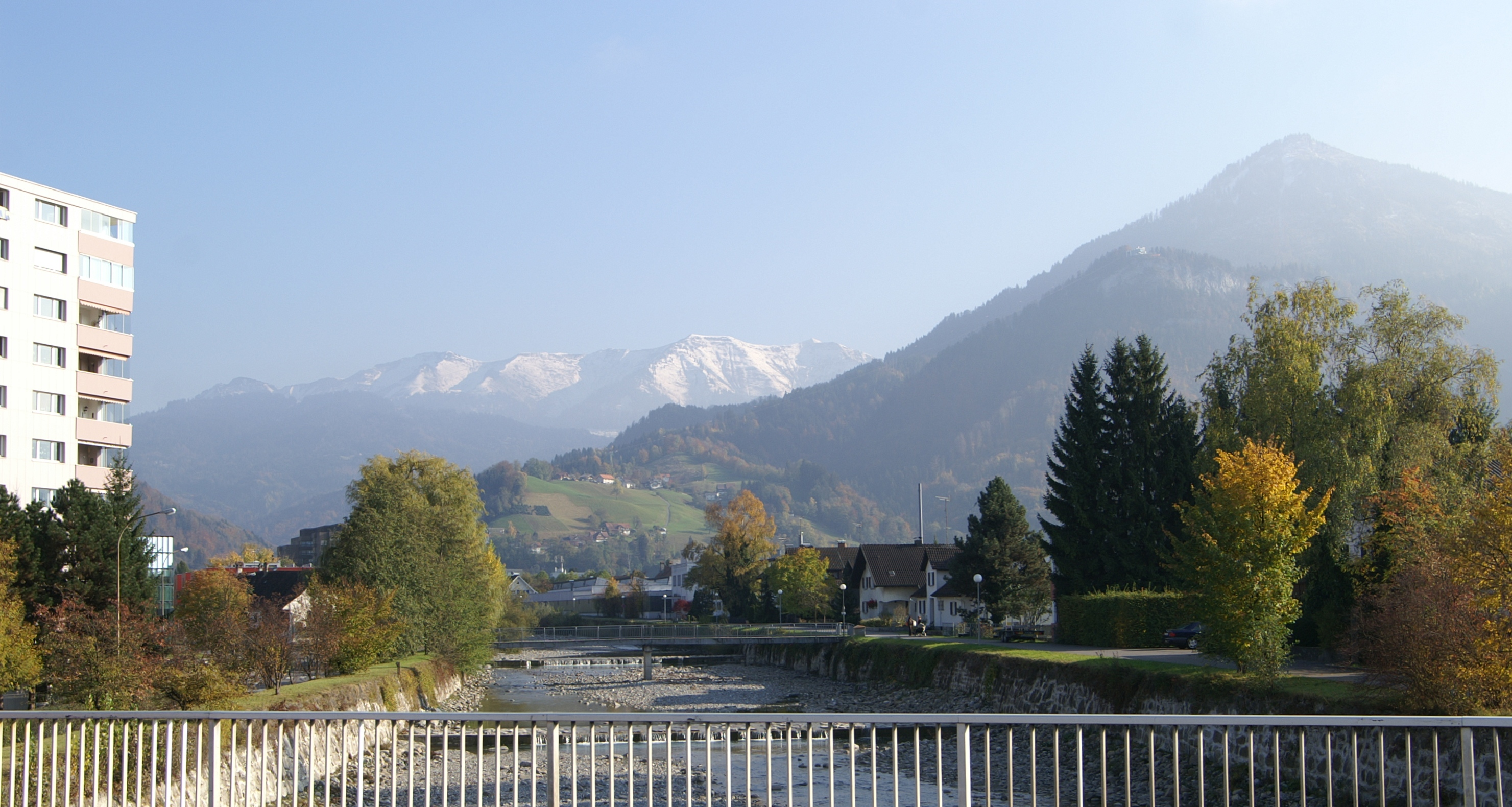 The Dornbirner Ache River in the city of Dornbirn.